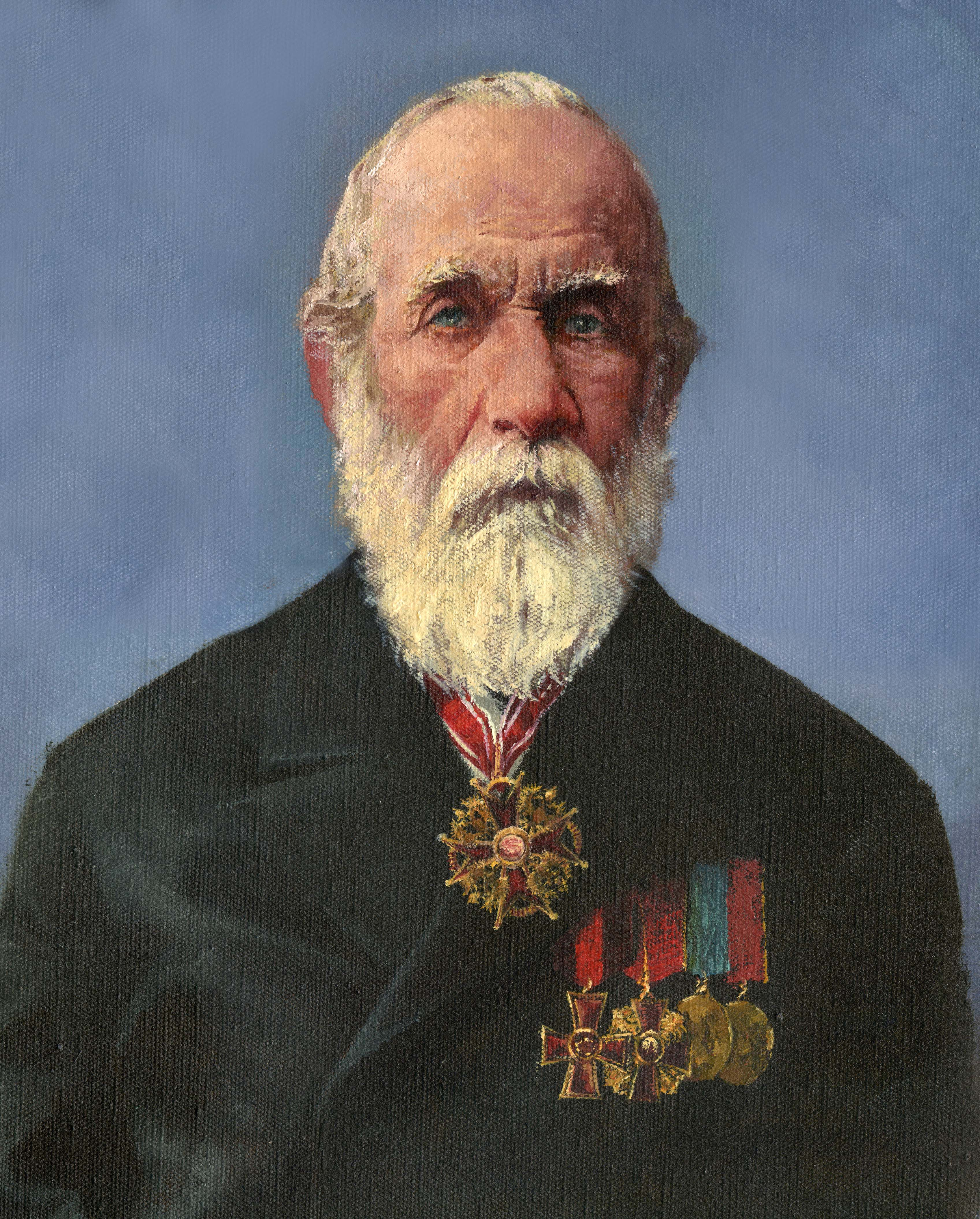 Ivan_Logginovich_Medvednikov-Russian merchant